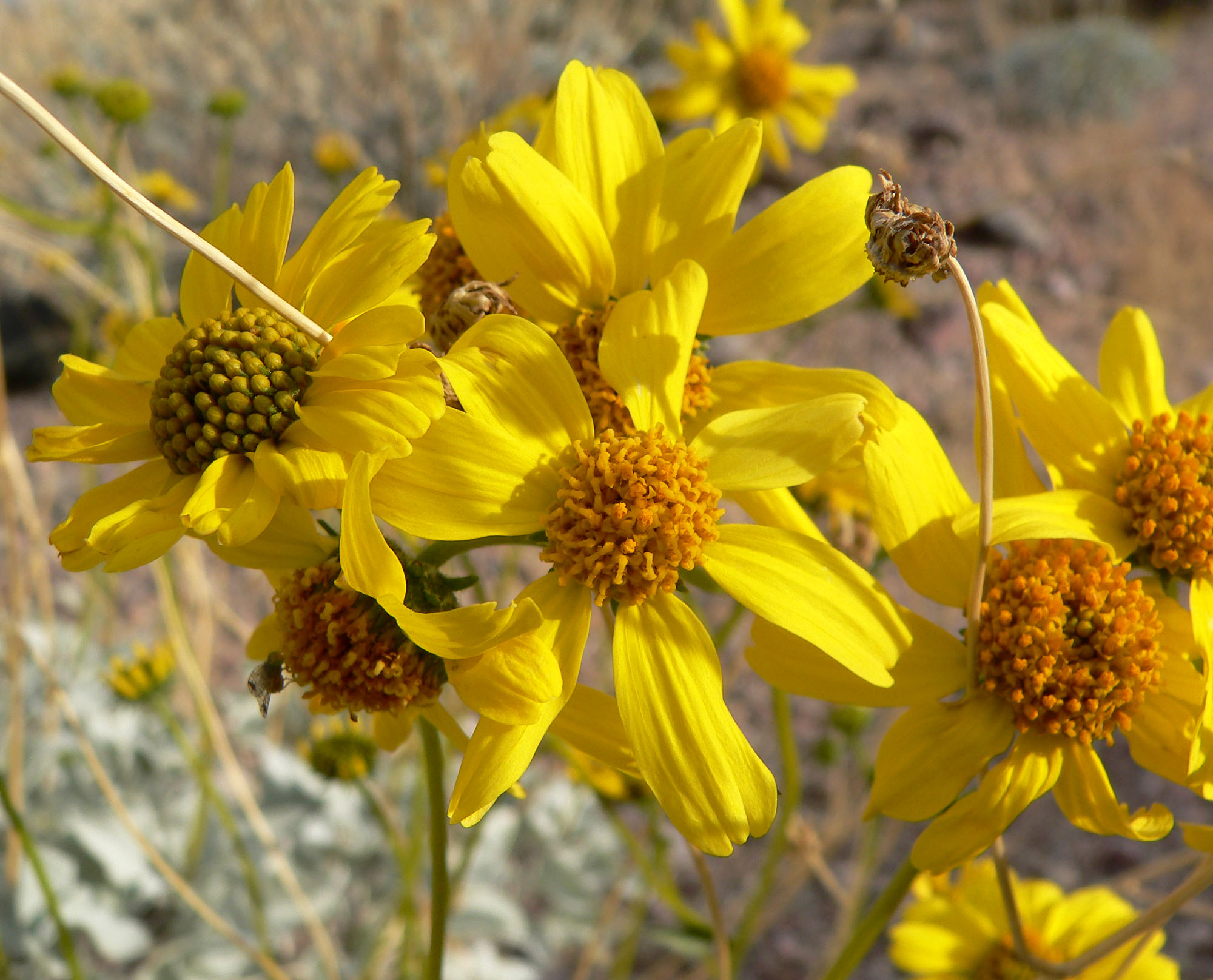 Encelia farinosa — Brittlebush. Blooming two miles east of Jubilee Pass near Route 178, in Death Valley National Park, California